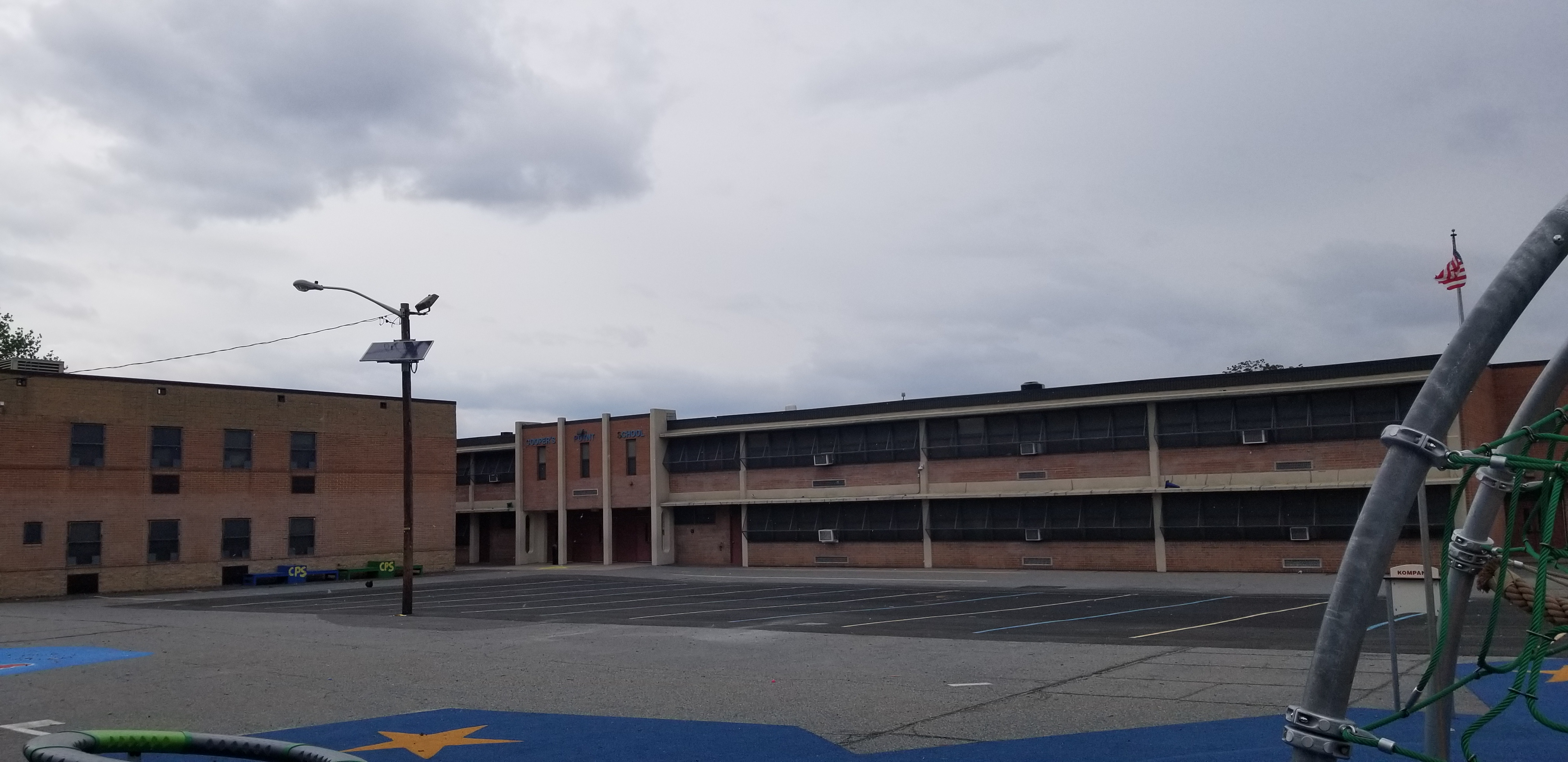 School